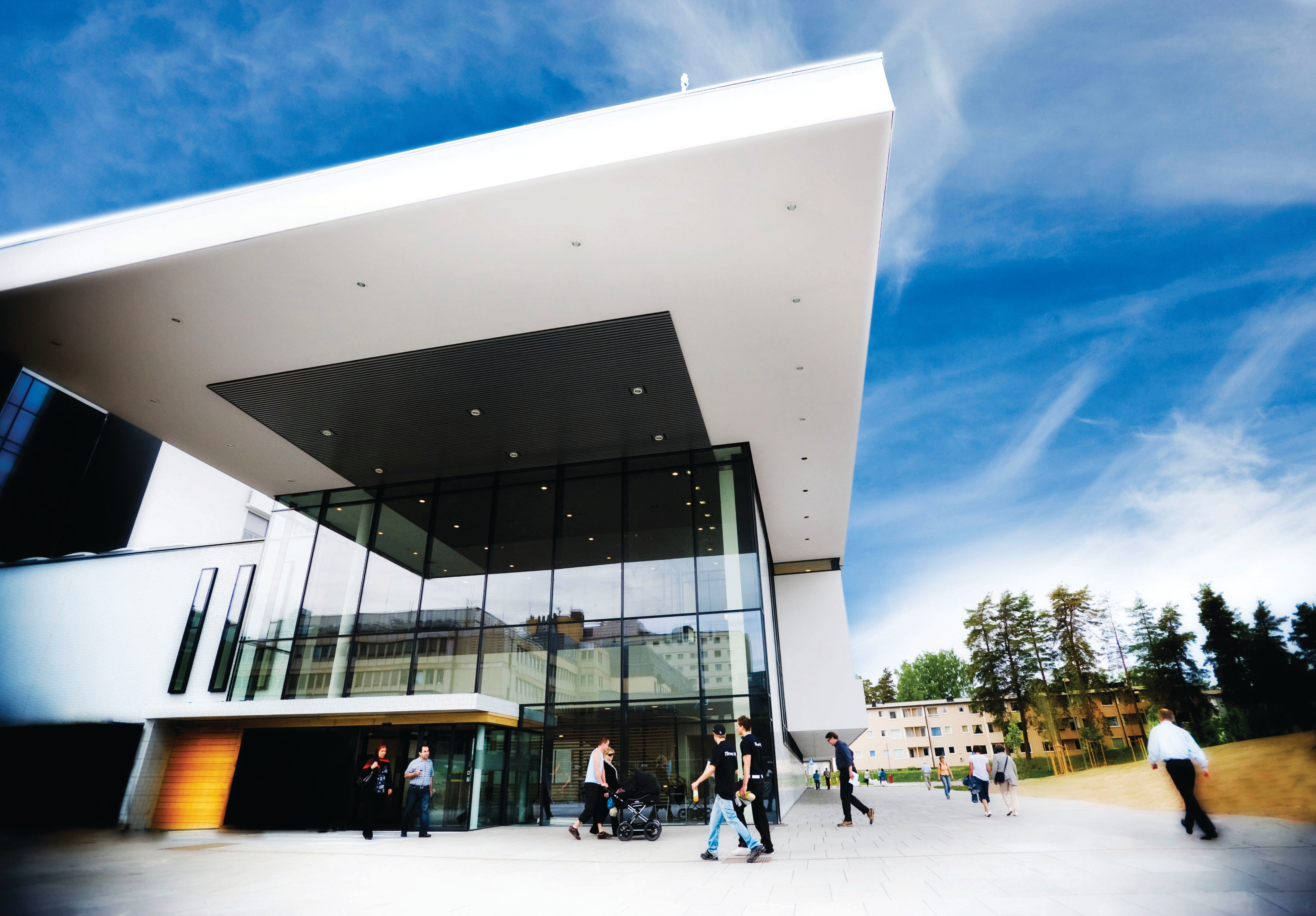 Entrance at Akershus universitetssykehus (Ahus), Lørenskog, Norway